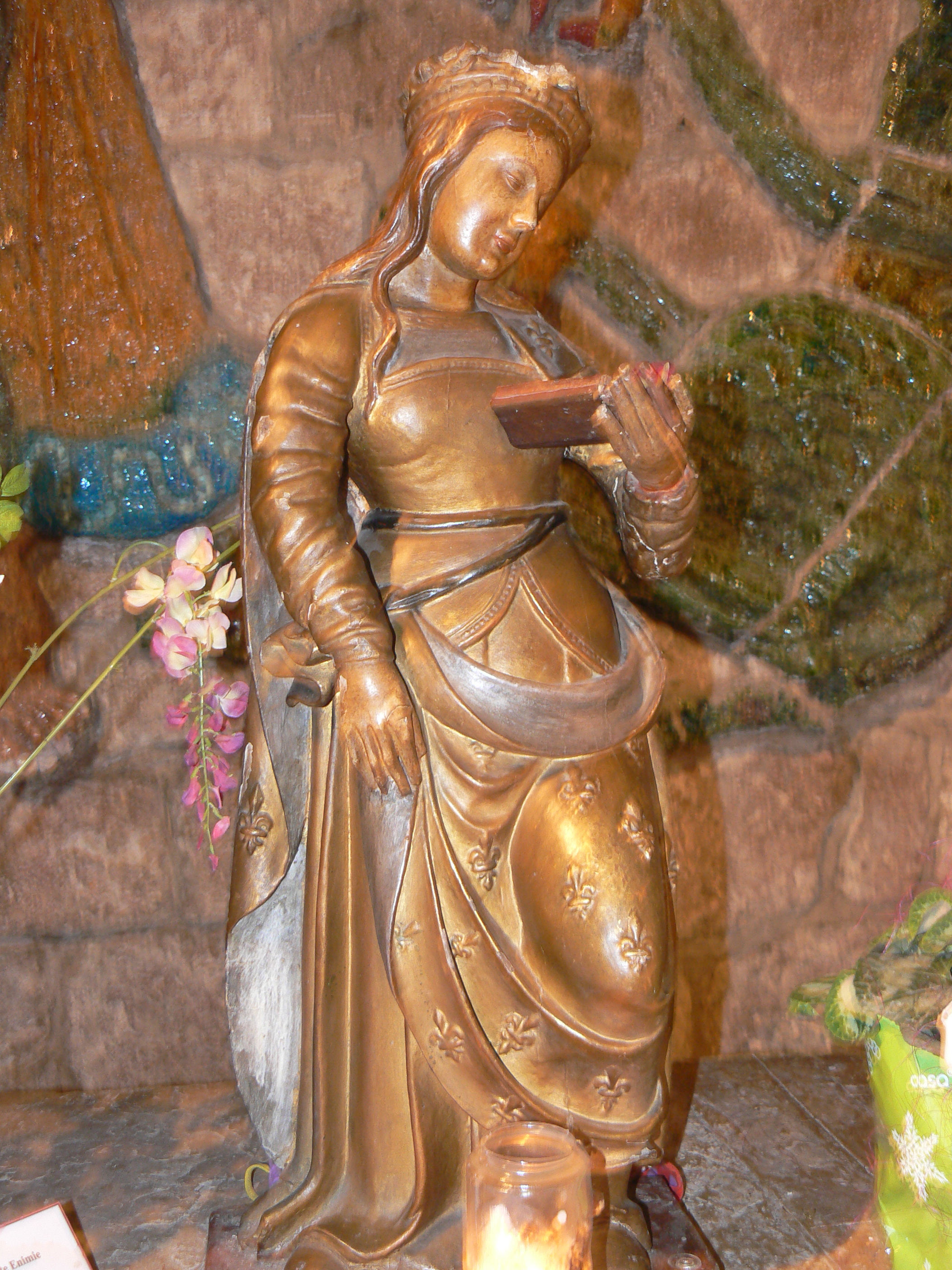 Eglise Notre-Dame-du-Gourg, the church of Sainte-Enimie, Lozère (France)